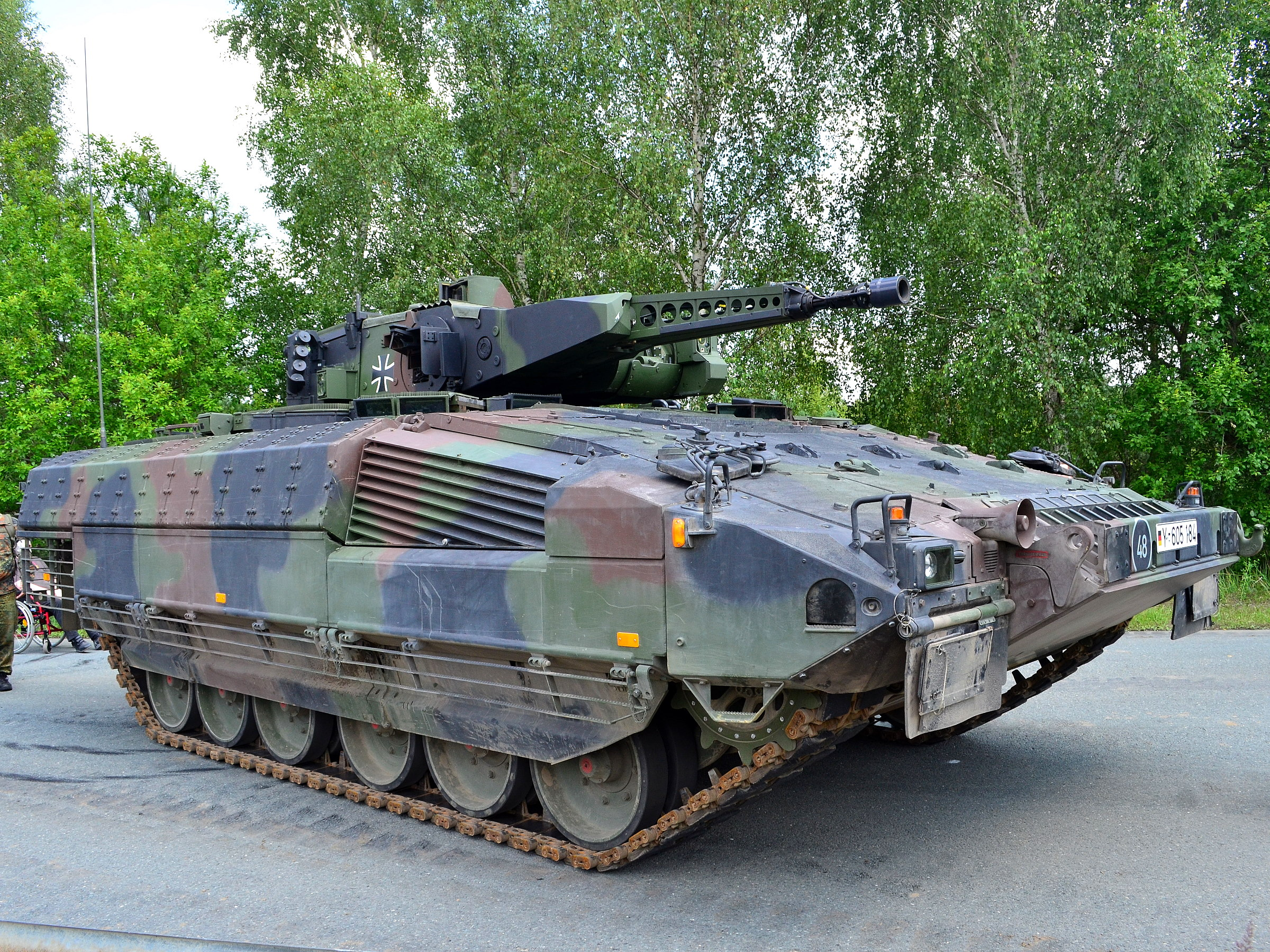 A Puma infantry fighting vehicle of the German Army at an Open Day event in 2015